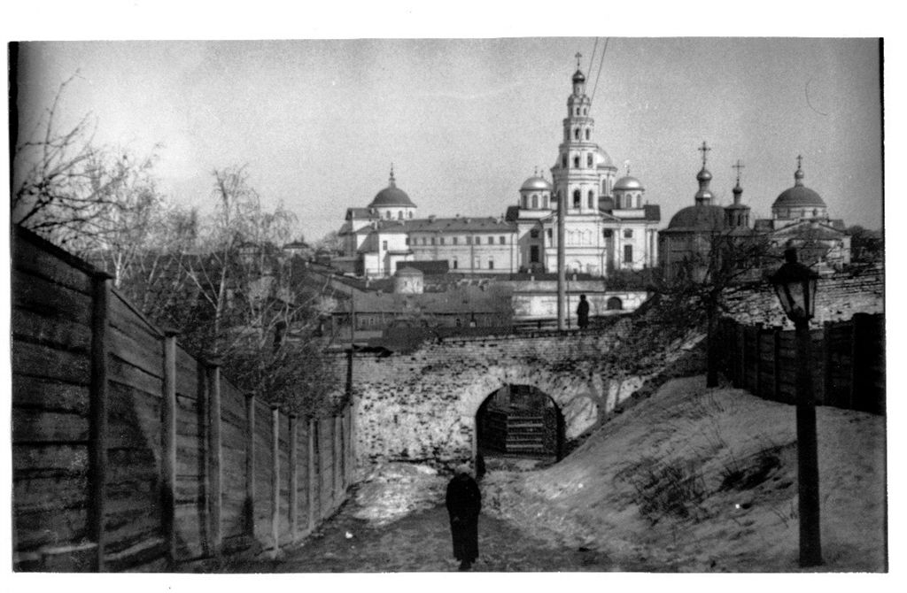 Kazanskiy Bogoroditskiy Monastery built on the spot where miraculous icon of Our Lady of Kazan was discovered. View from Kremlin walls.